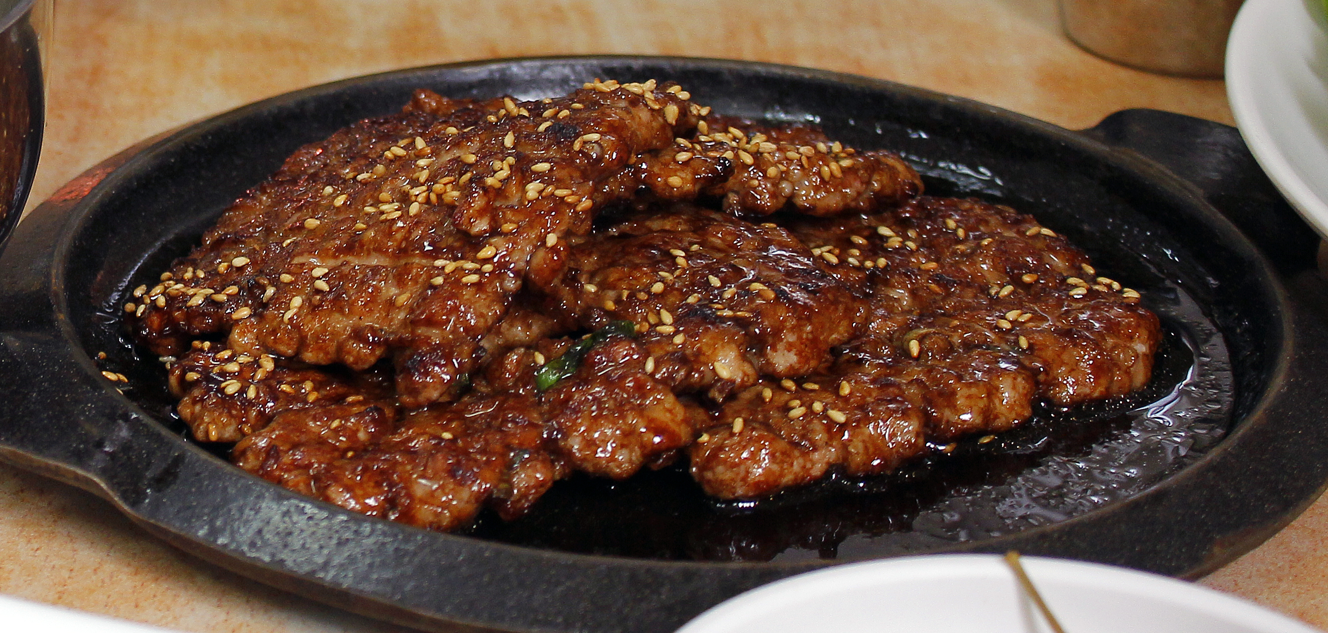 Songjeong Tteokgalbi